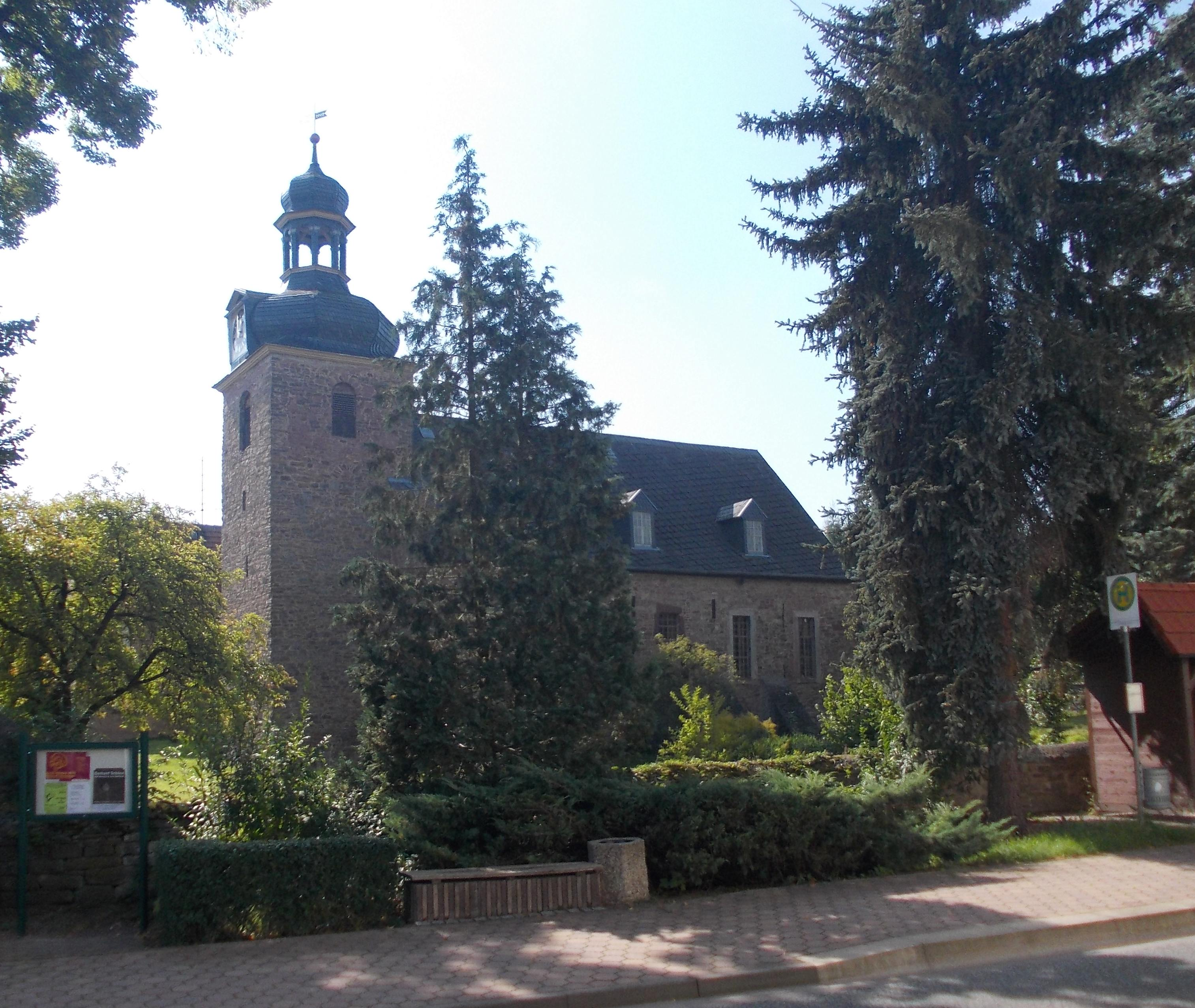 Obersdorf church (Sangerhausen, Mansfeld-Südharz district, Saxony-Anhalt)